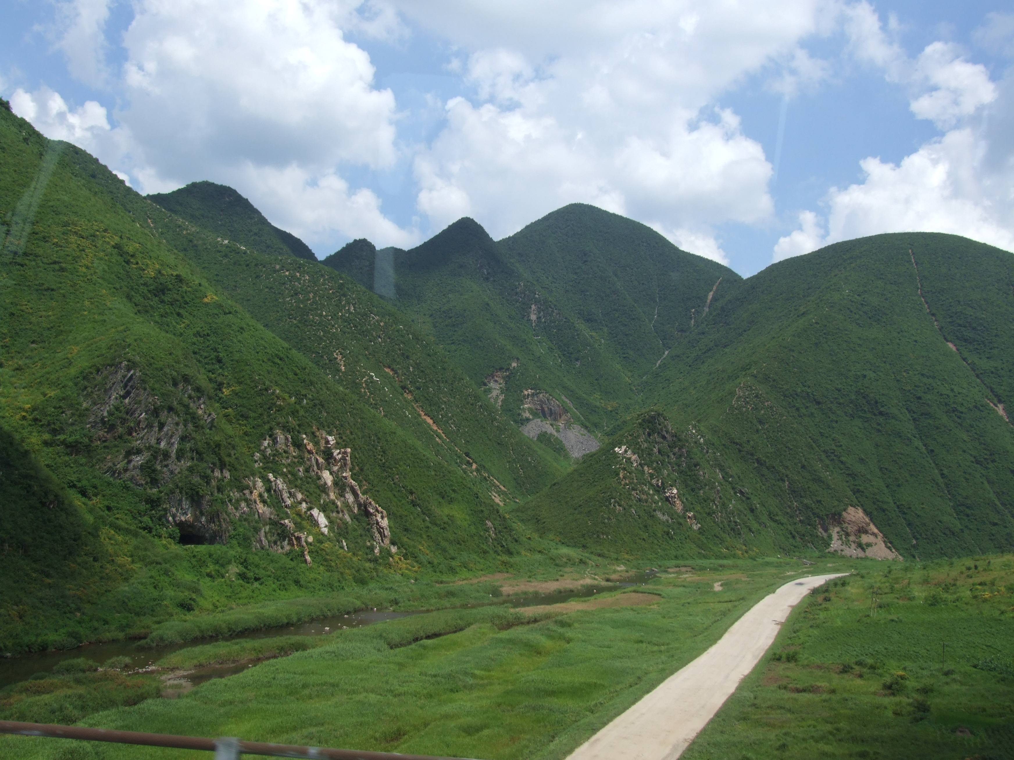 Mountain in North Korea, close to Gaeseong